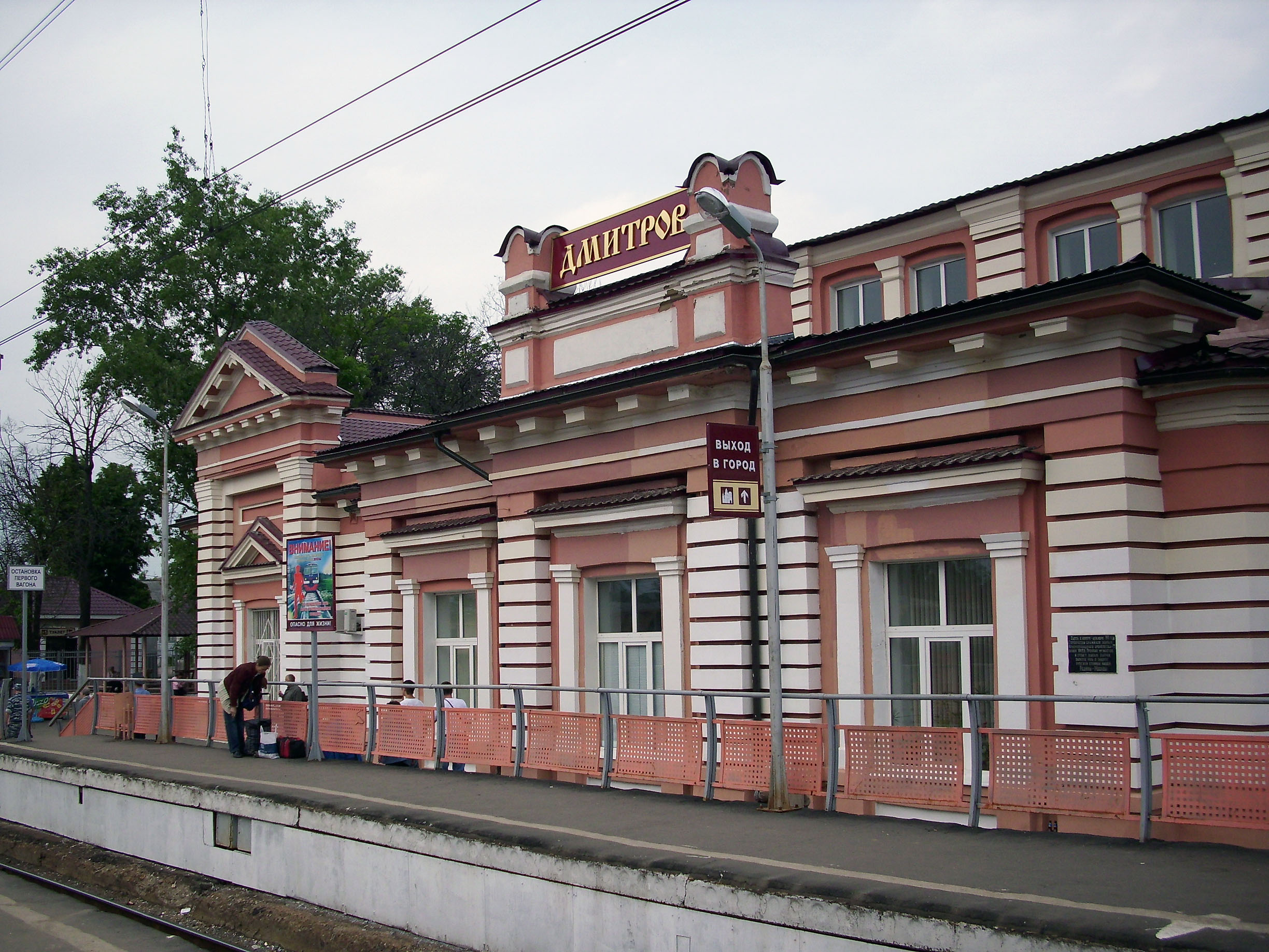 Dmitrov - rail station of Dmitrov (Moscow Oblast).